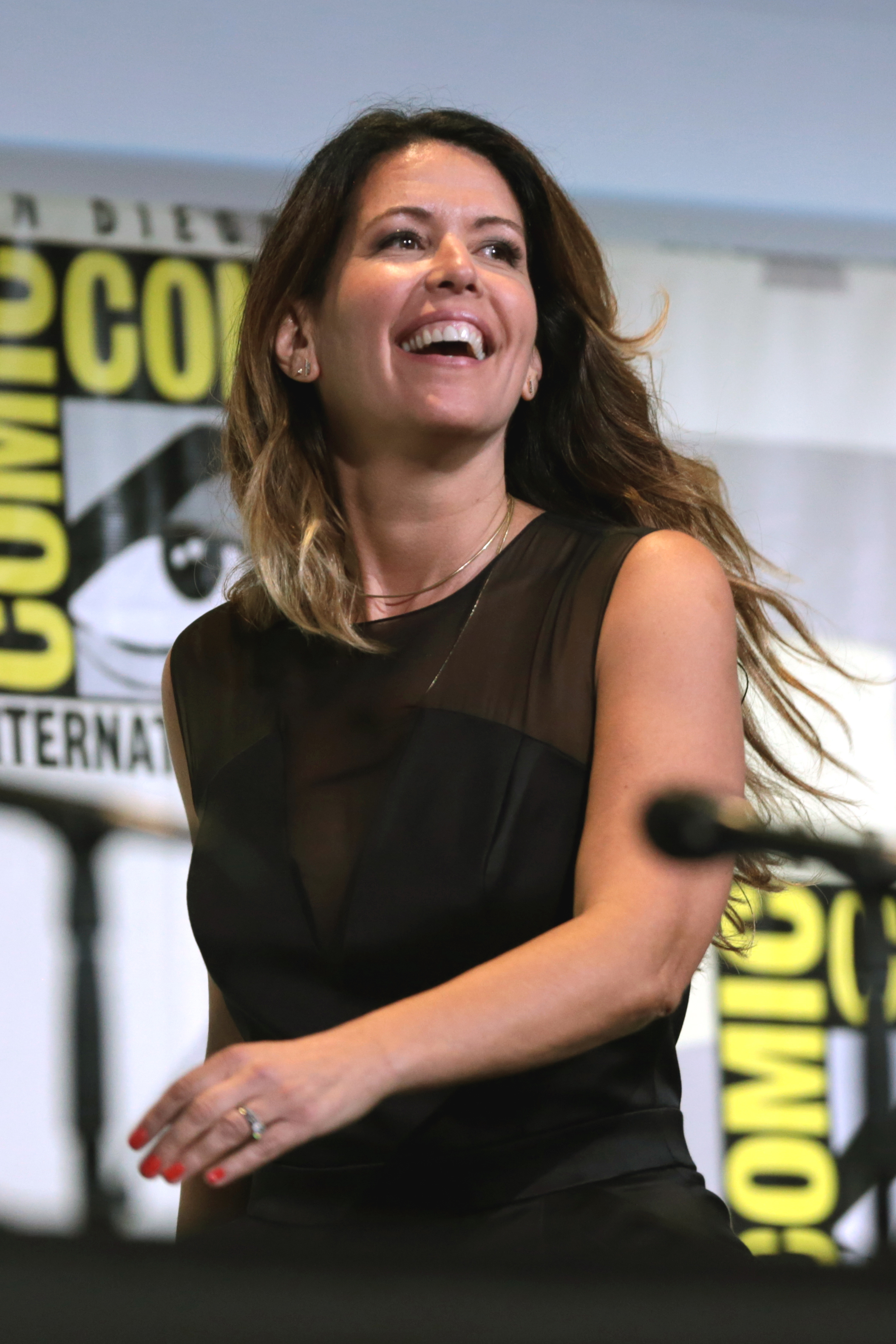 Patty Jenkins promoting Wonder Woman at the 2016 San Diego Comic-Con International.